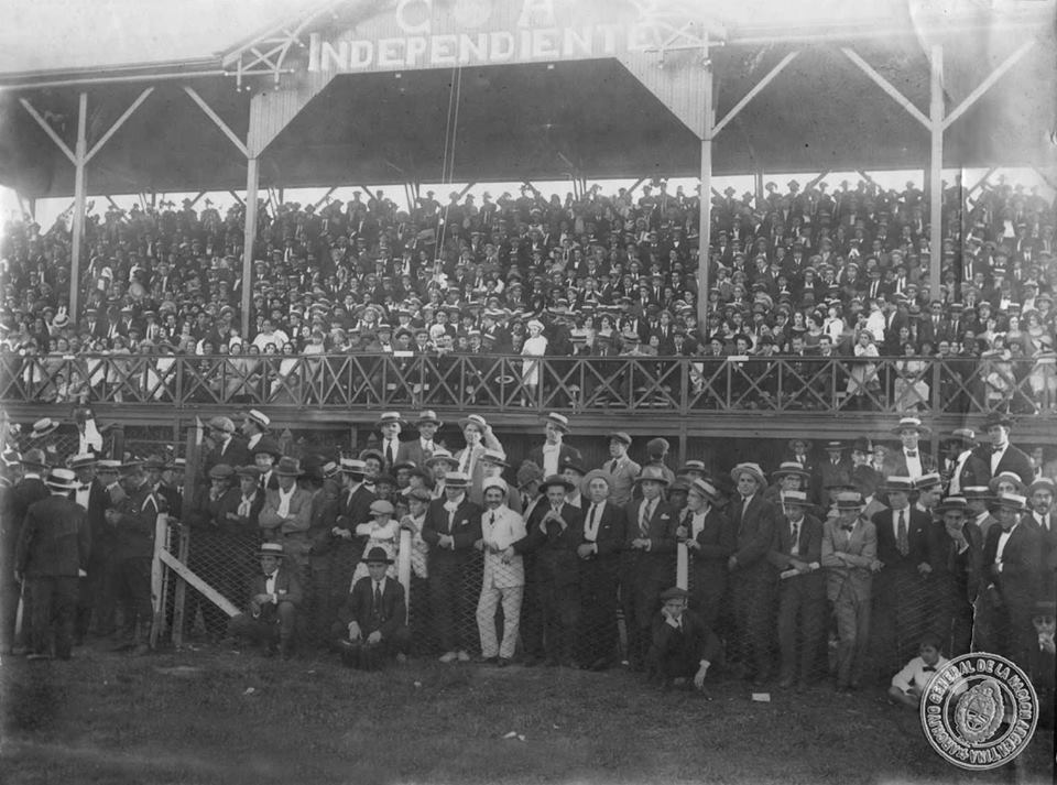 Grandstand of Club A. Independiente stadium, during a football match. The stadium, nicknamed La Crucecita, was destroyed by fire in 1923. The club then built its current stadium, inaugurated in 1928.